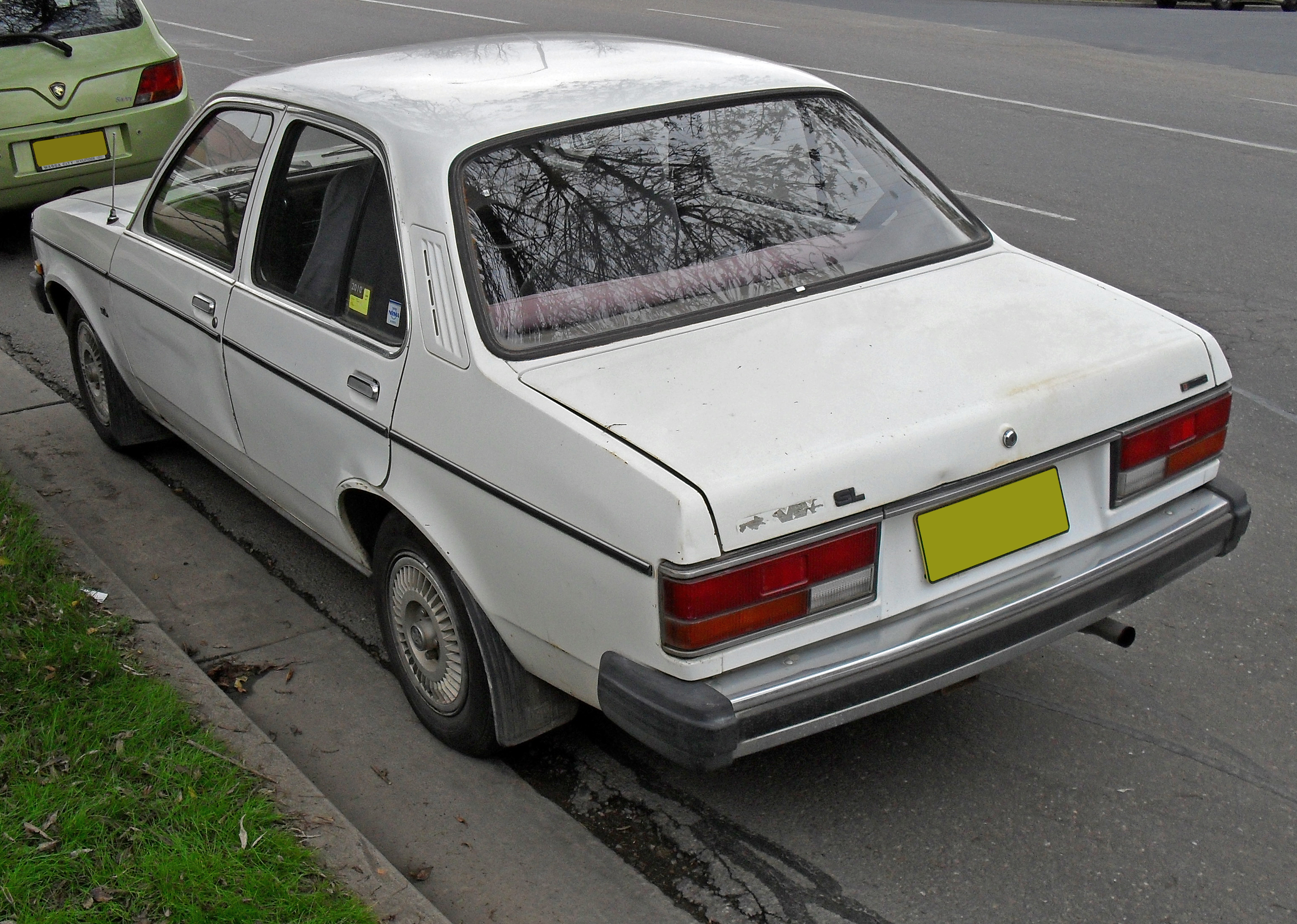 1979-1982 Holden TE Gemini SL sedan photographed in New South Wales, Australia.